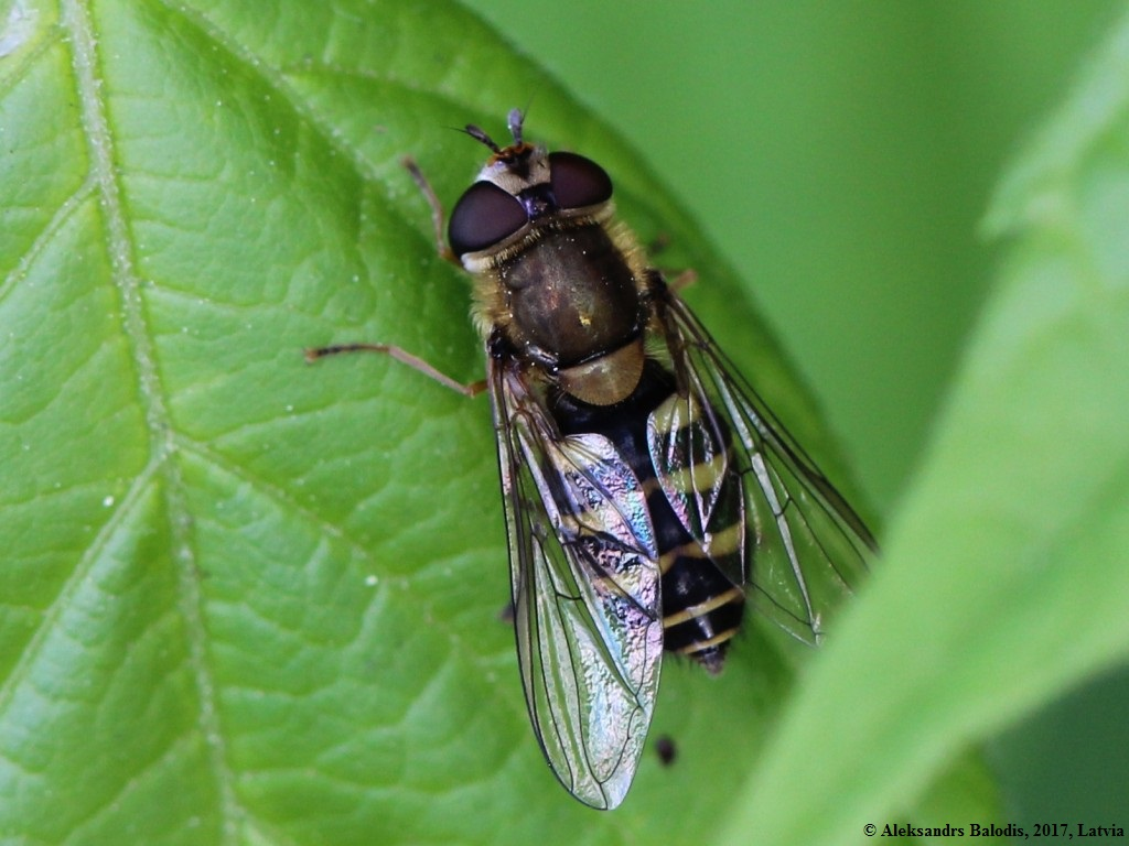 Eupeodes lapponicus